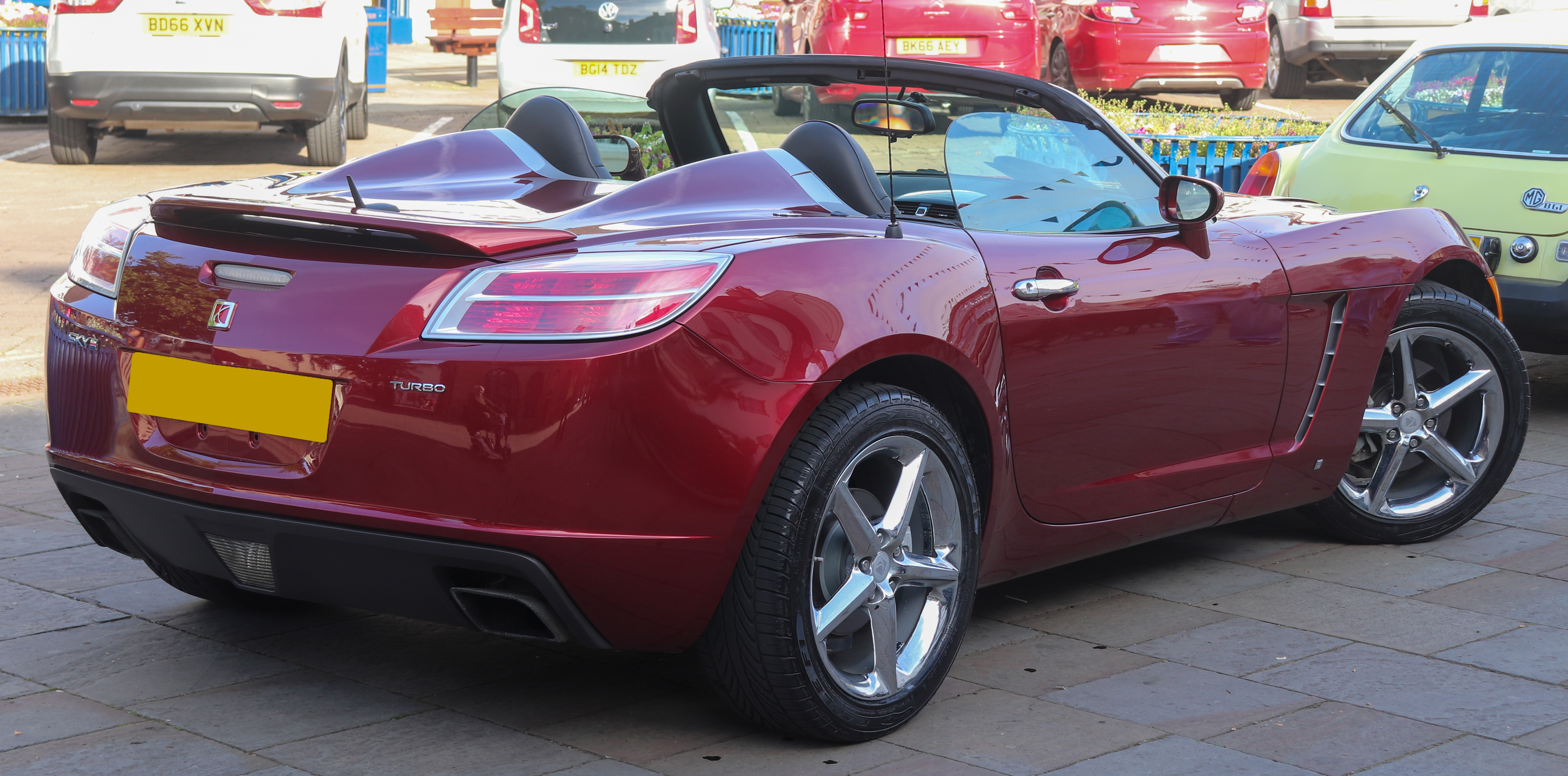 2009 Saturn Sky 2.0 Rear Taken in Warwick